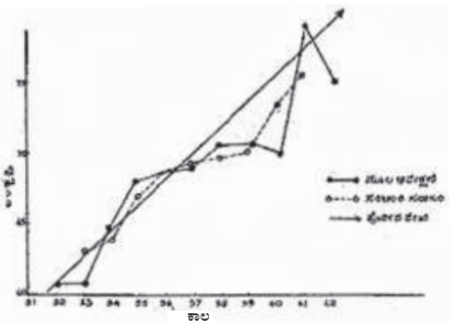 Graphical representation of economic statistics.